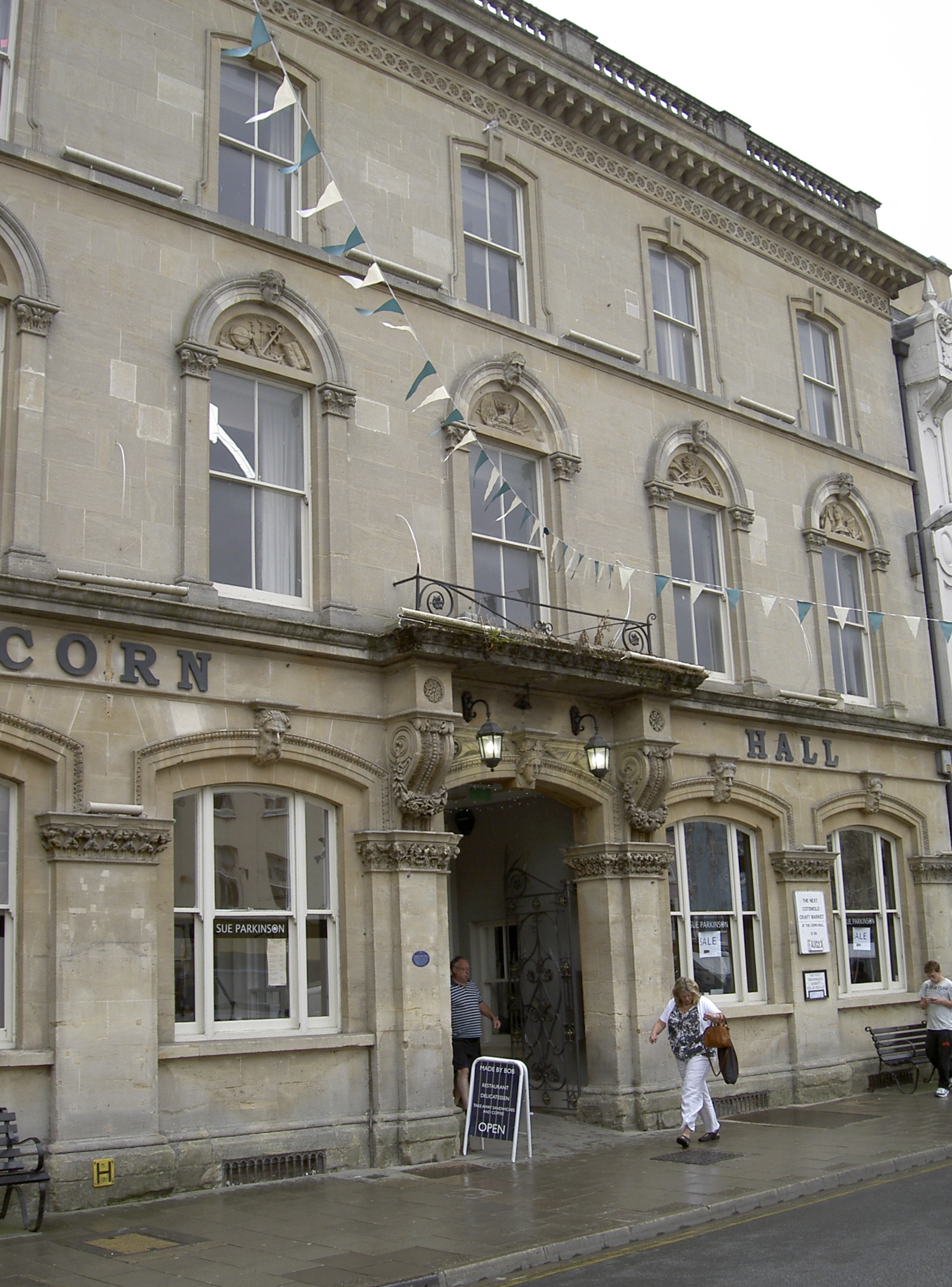 The Corn Hall. Cirencester This magnificent hall was built in 1863 by Medland, Maberly and Medland to replace the old Booth Hall as the place for local business to operate. It is a Grade II listed building and is decorated with a number of interesting carved panels